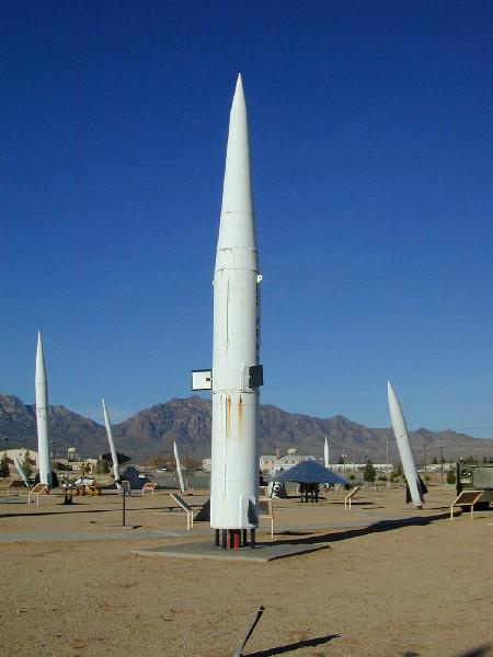 Pershing I missile. From the source: This two-stage ballistic missile was highly mobile, had a selective range capability and replaced the Redstone missile as the Army's "Sunday Punch." Testing of this nuclear capable missile at White Sands involved off range firings from Fort Wingate, N.M. and several locations in southern Utah like Green River.